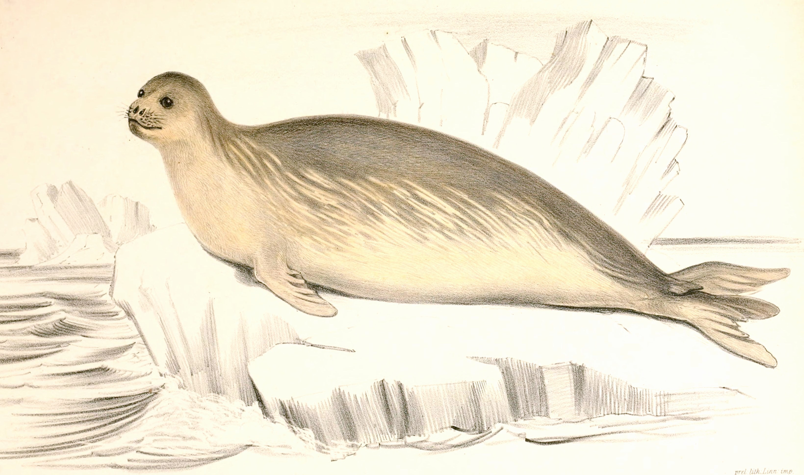 Ross Seal (Ommatophoca rossii)